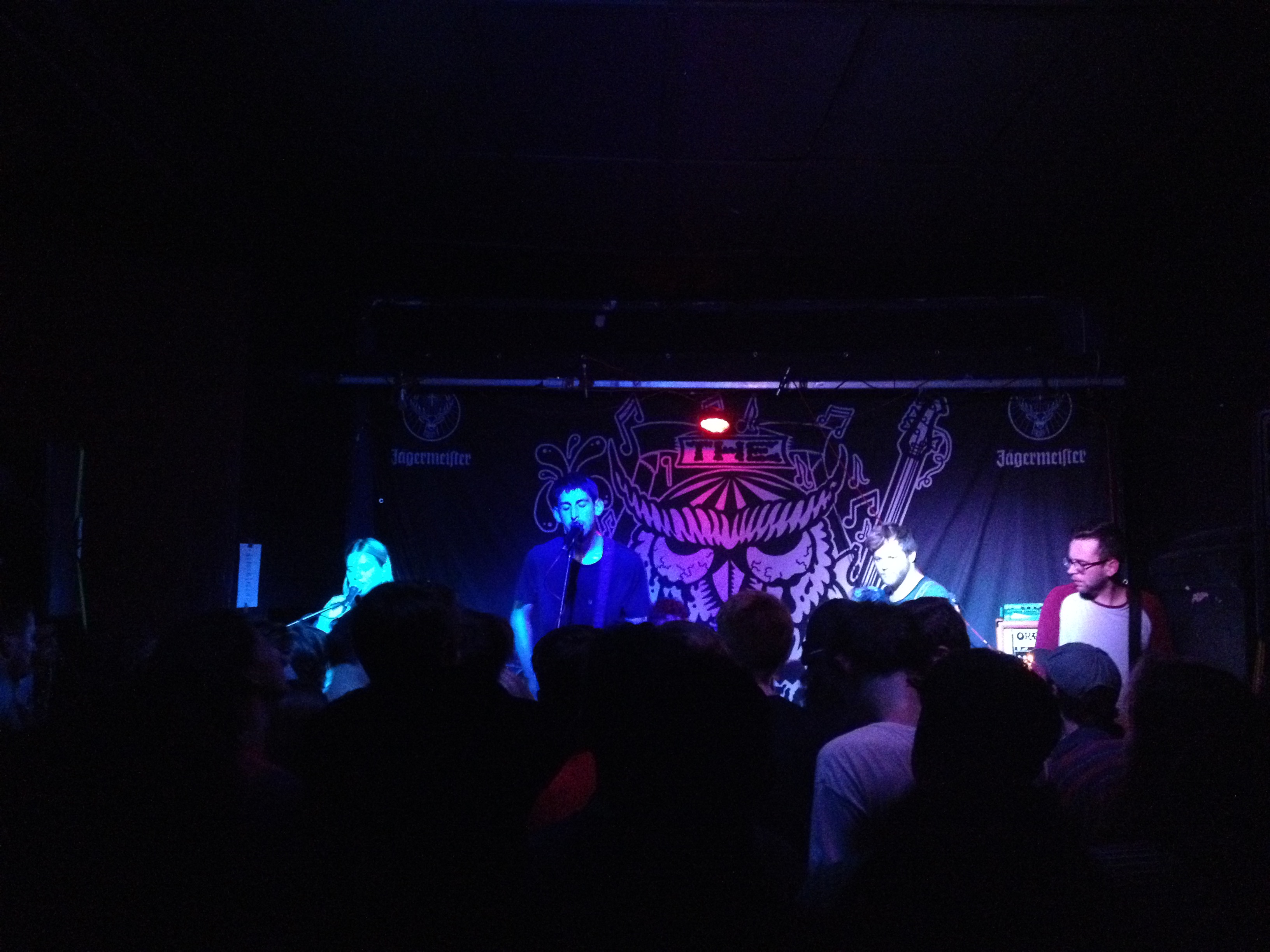 Tigers Jaw performing live at The Owl Sanctuary, Norwich, UK on 19/08/2015 during their UK/Europe Tour